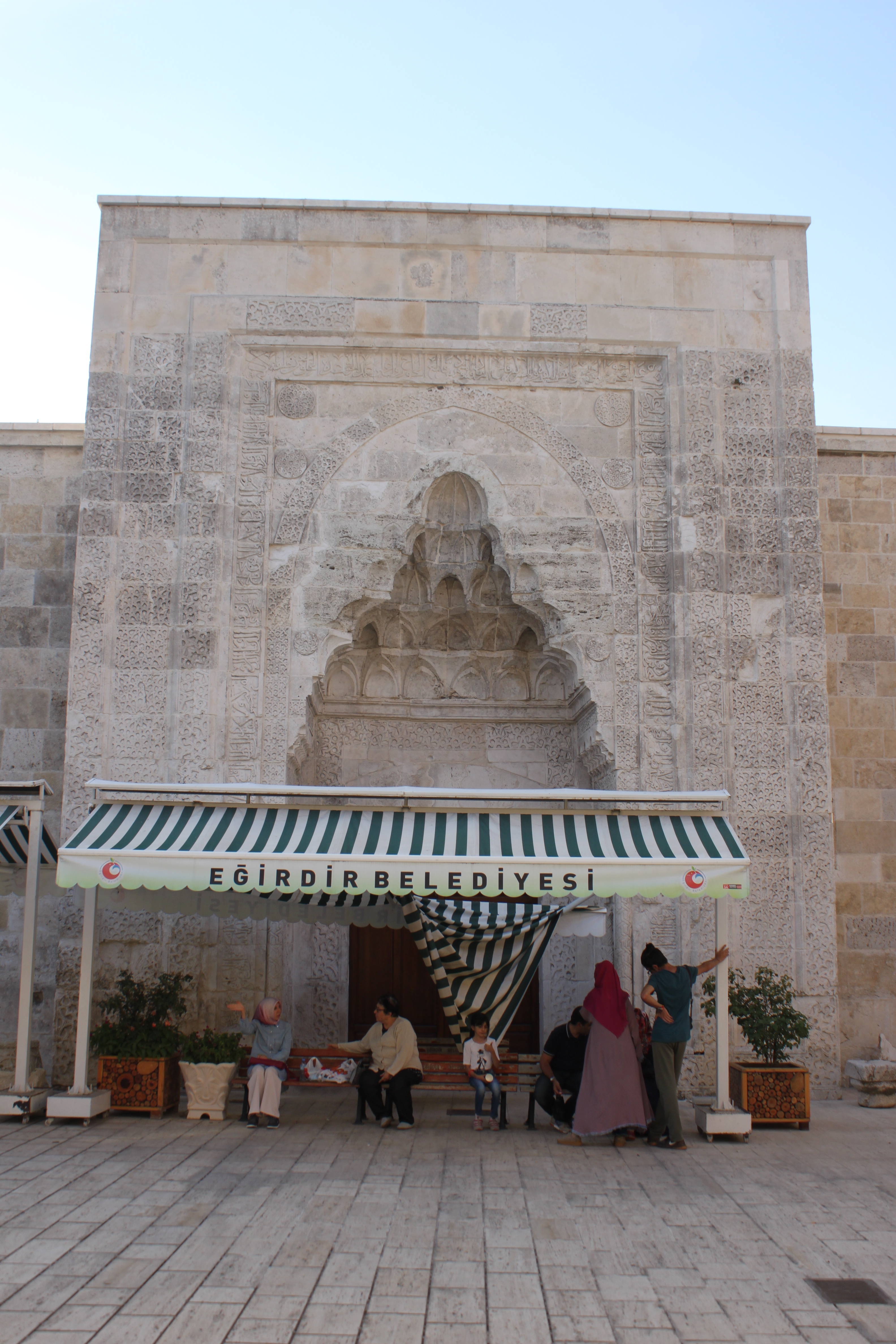 Eğirdir, Taş Madrese (koran school) of 1238; Entrance gate of Eğirdir-Han from 1301